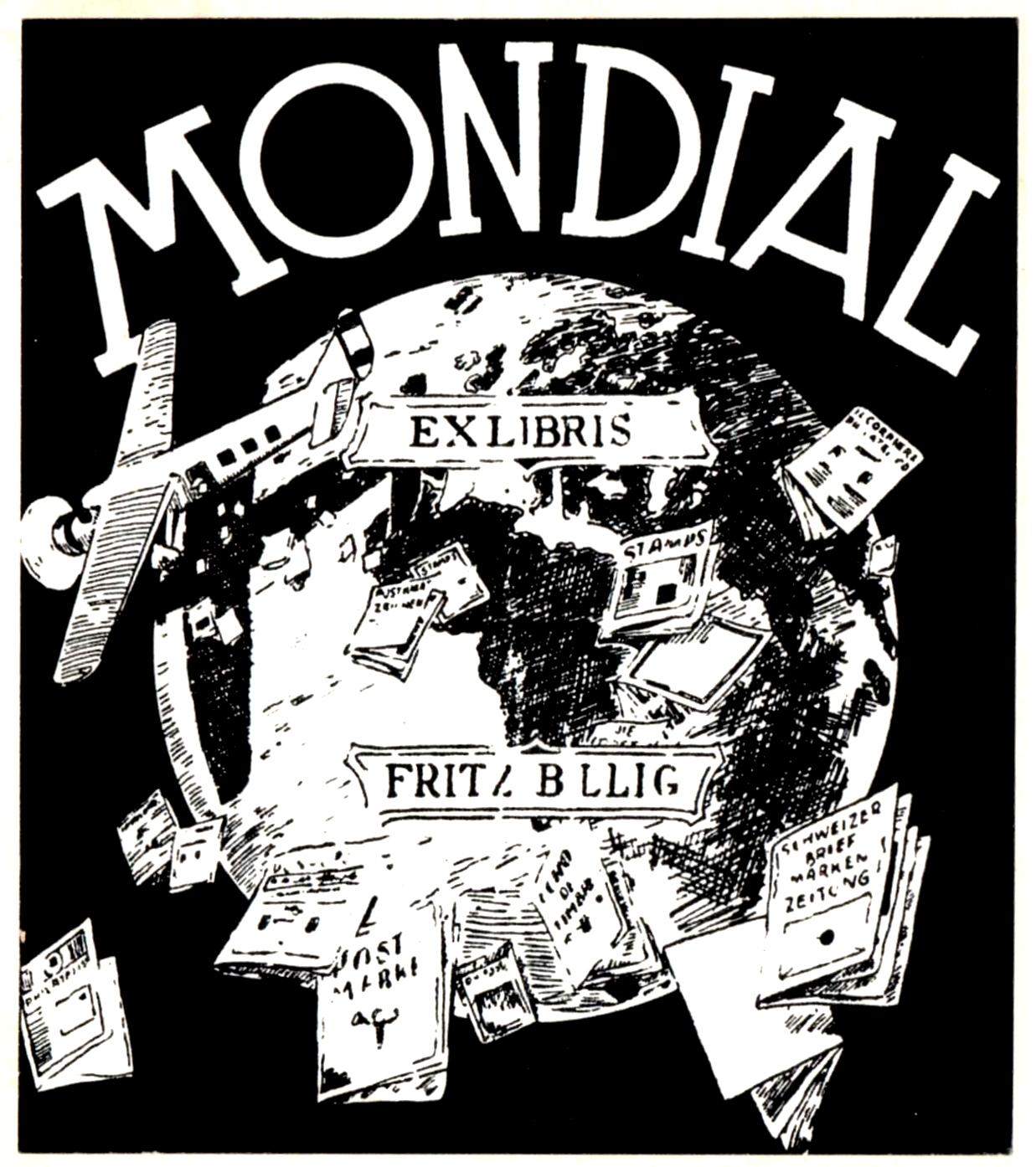 A bookplate for Fritz Billig found in a book by A.B. Kay published in 1908.